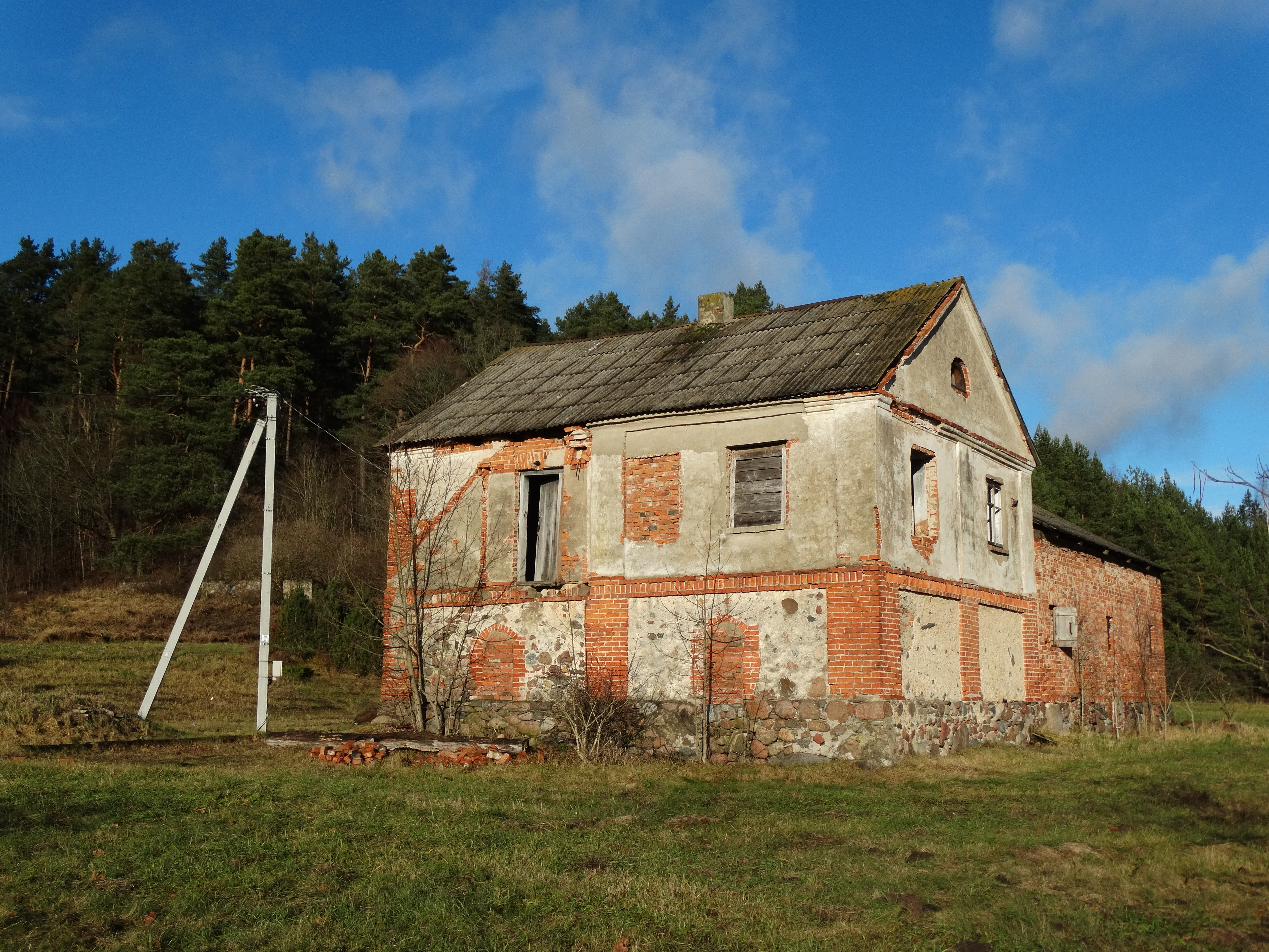 Naujokai, Jurbarkas district, Lithuania